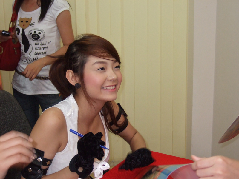 Minh Hằng